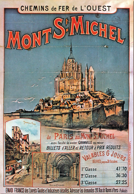 Poster of the Compagnie des chemins de fer de l'Ouest (France); Mont Saint-Michel, Normandie, France.